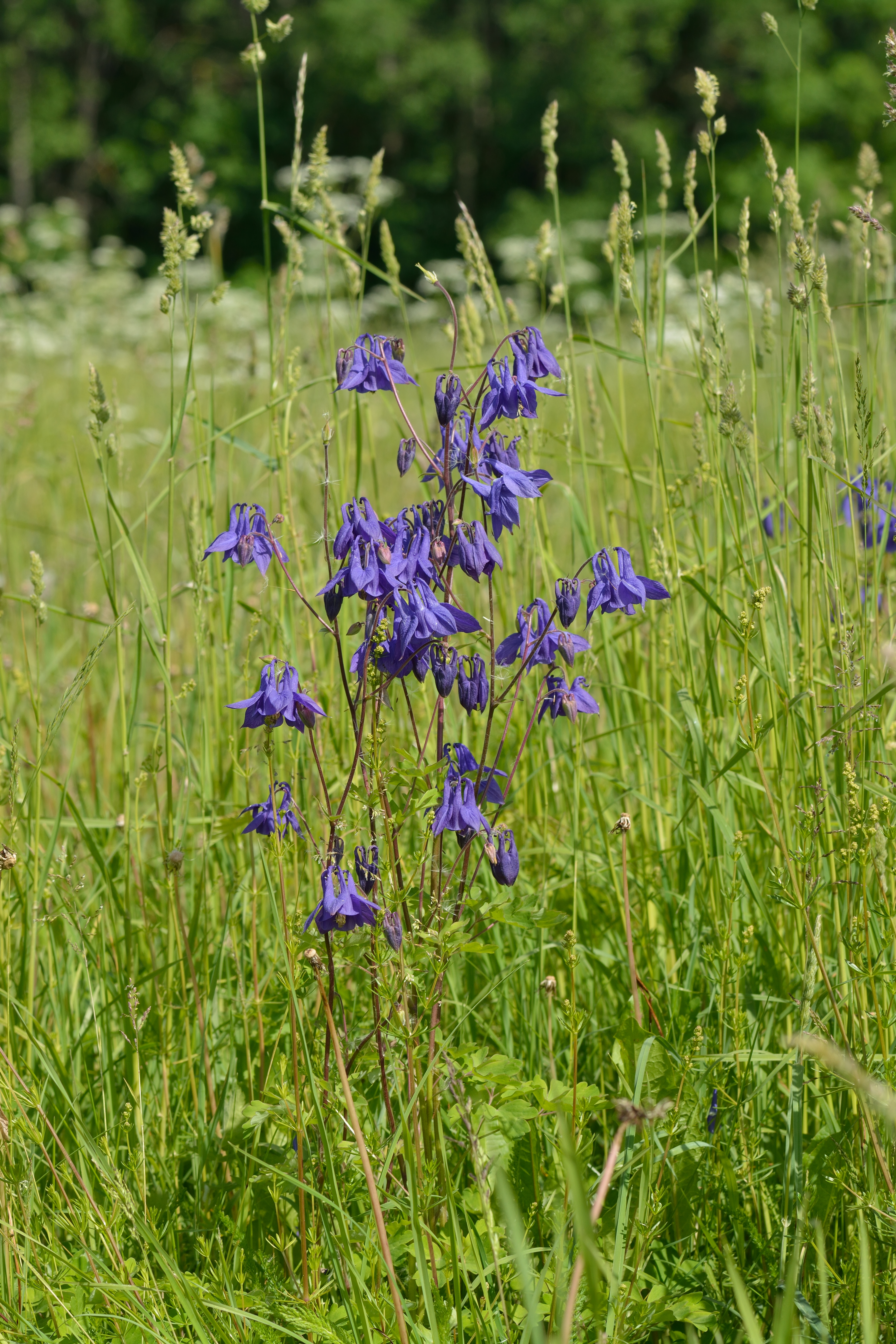 Aquilegia vulgaris - Niitvälja, Northwestern Estonia